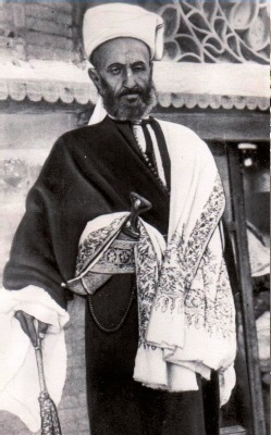 Imam Abdullah al-Wazir,leader of Alwaziri coup. Photo was taken in March 1948